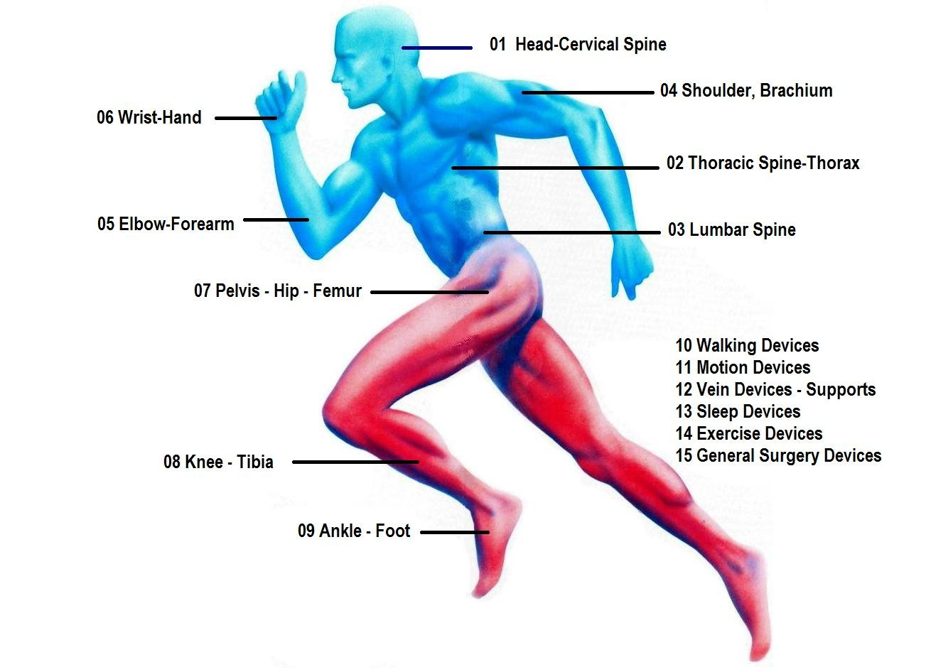 Codification of Orthotics, Draw by Dr. Harry Gouvas